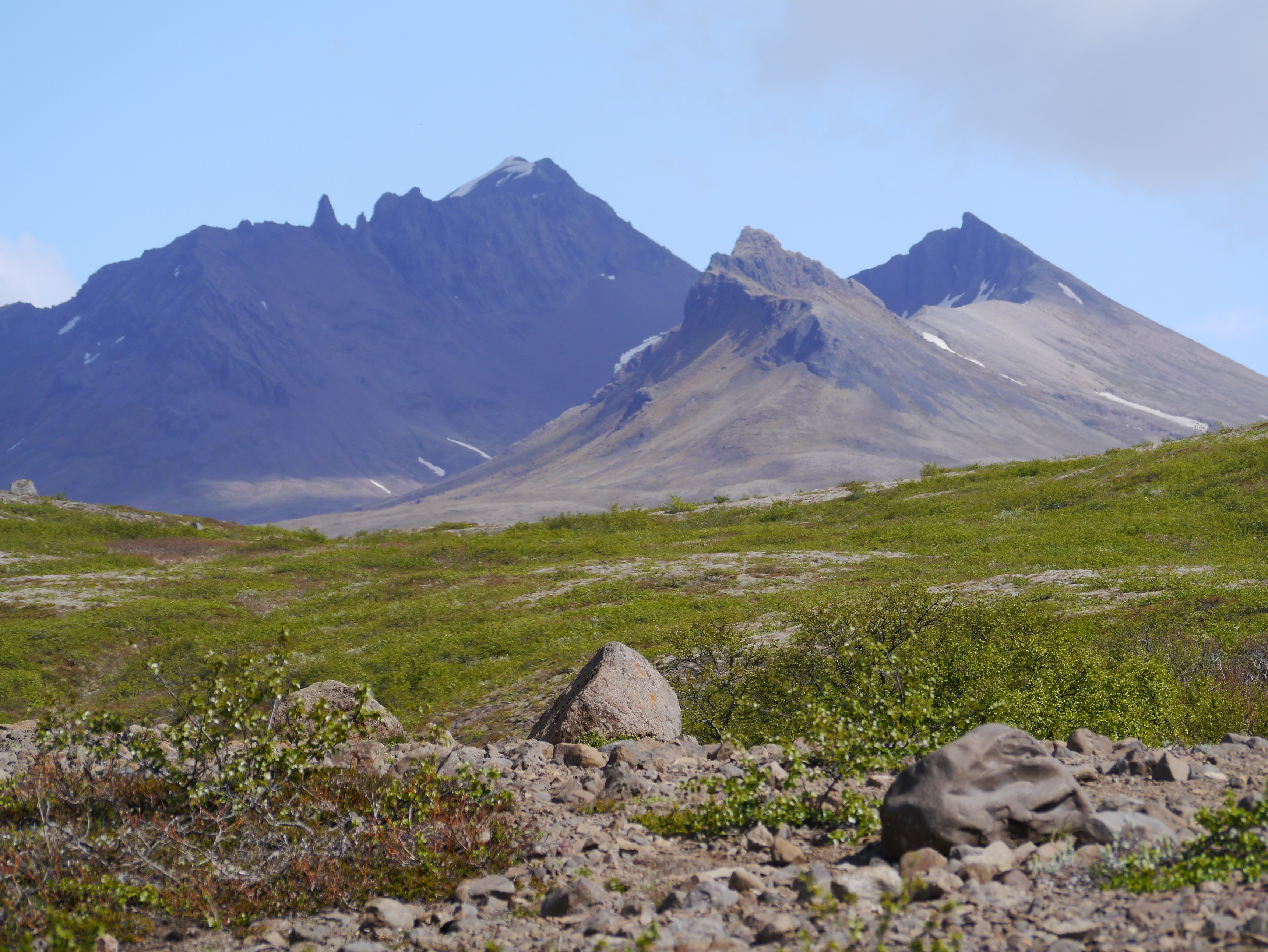 typical icelandic Mountains